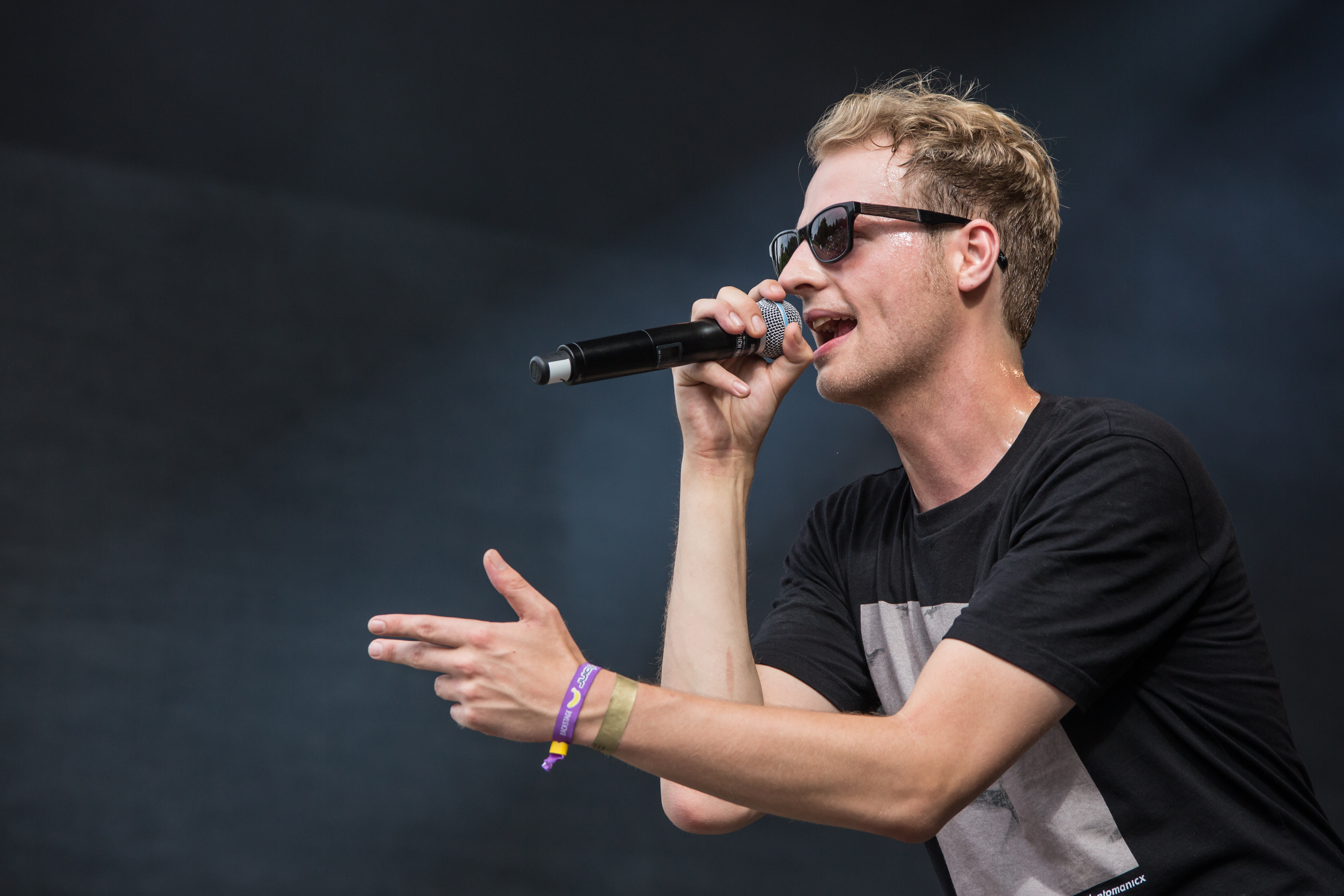 Weekend